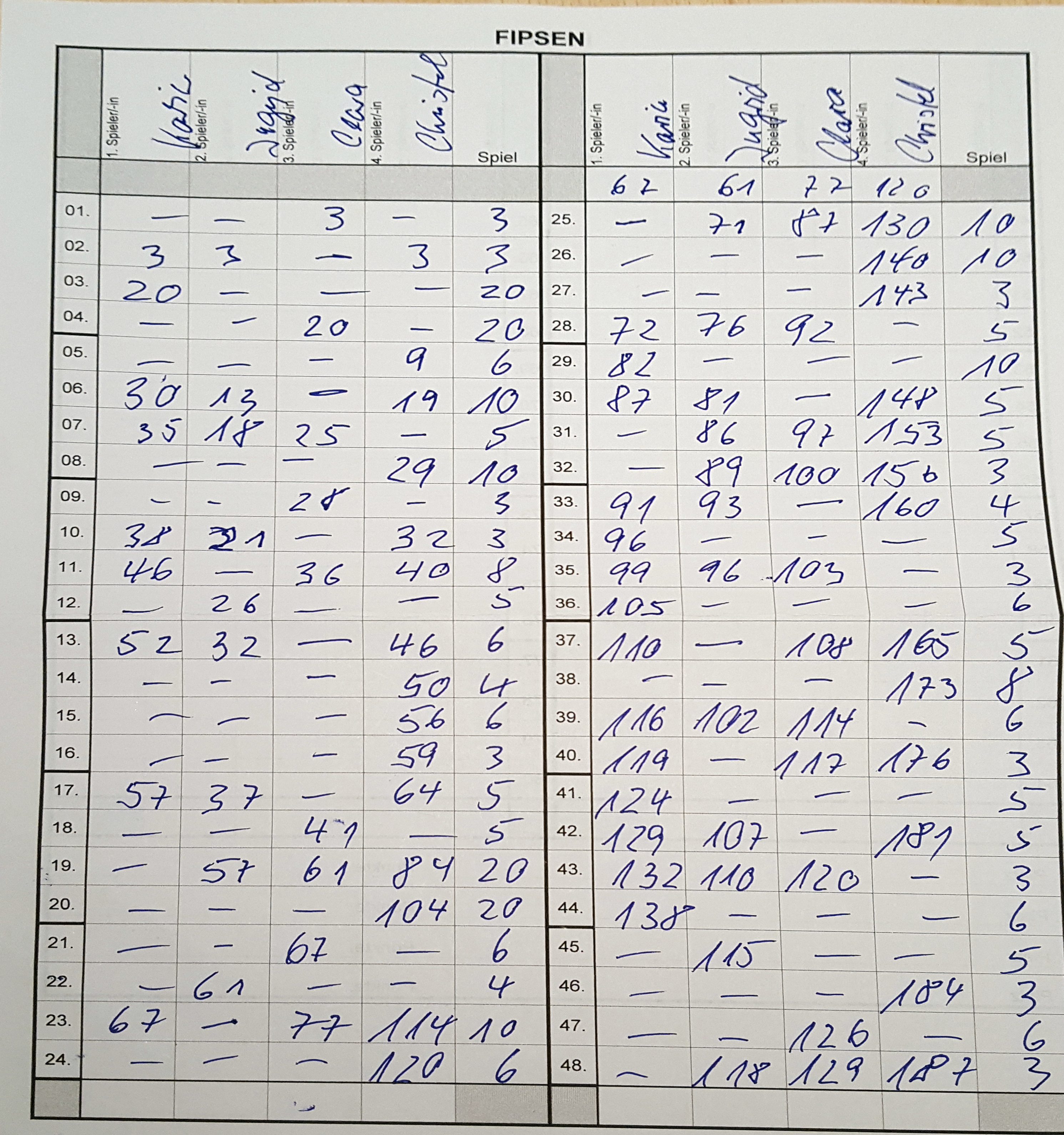 Page 1 of the scoresheet from a Fipsen tournament in Großenaspe, Germany. March 2020.